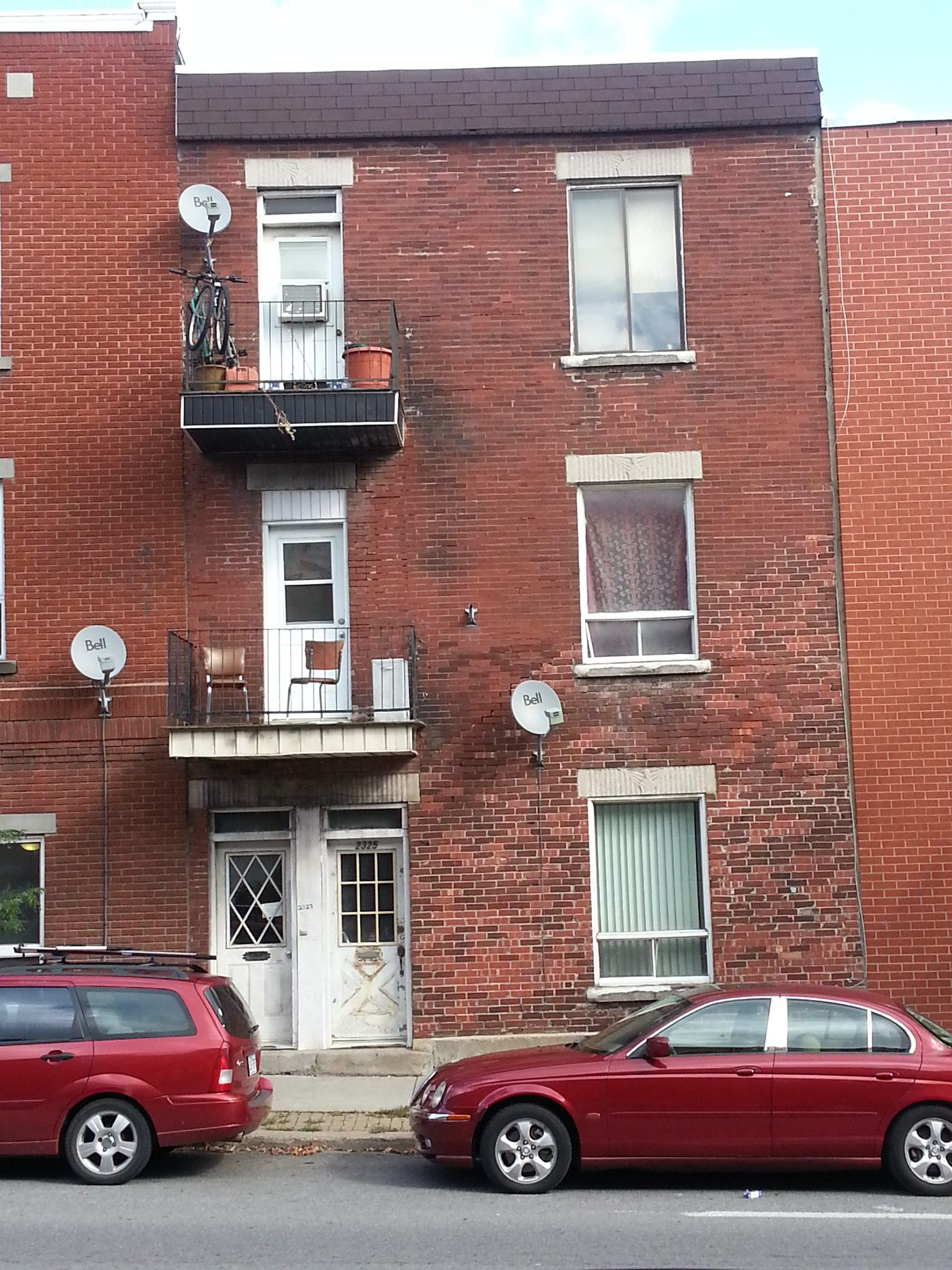 Located on 2325 Frontenac street, this is the house where Léo Major spent his childhood.